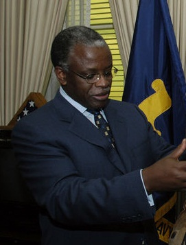 Amama Mbabzi, Prime Minister of Uganda